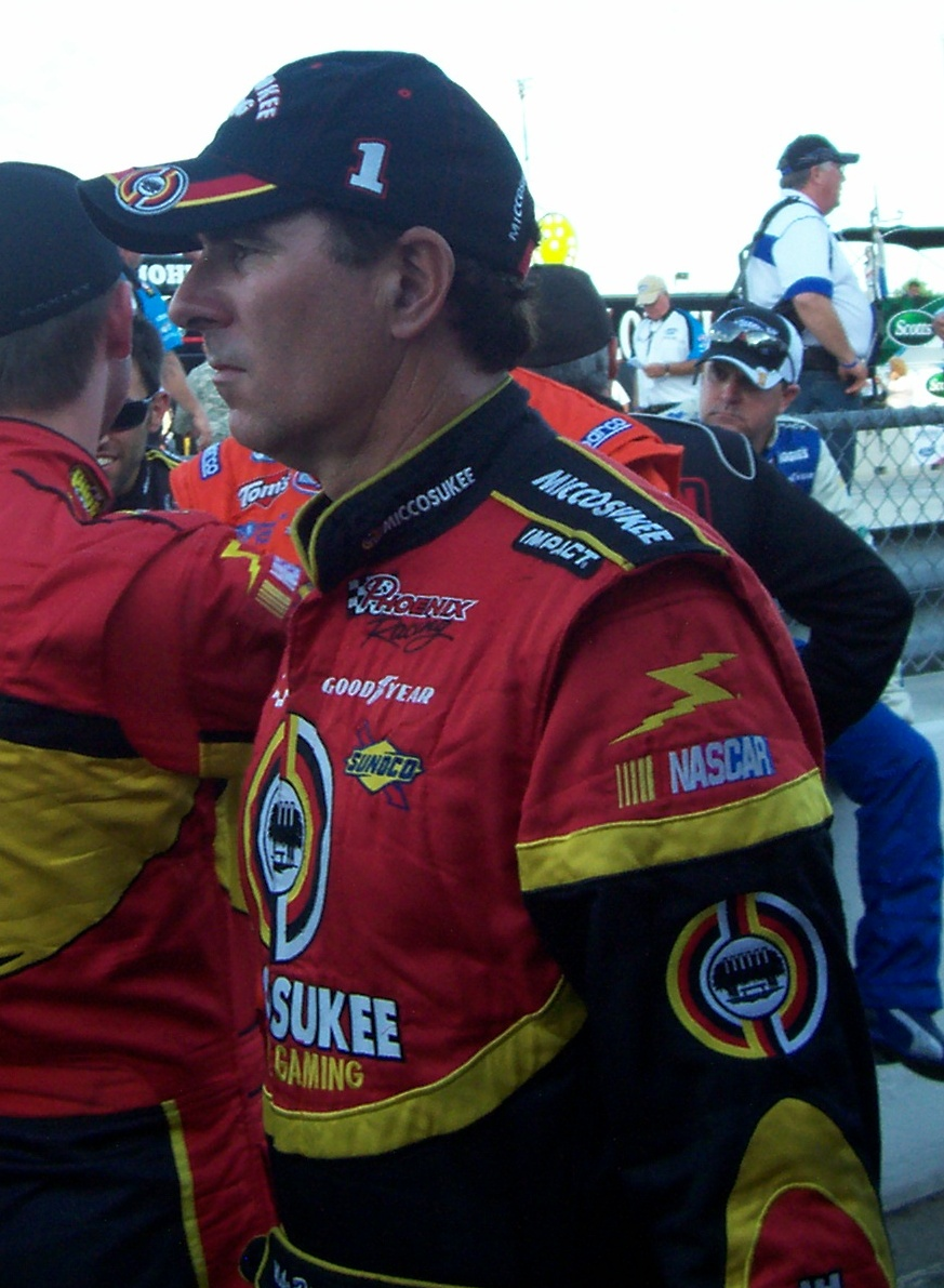 NASCAR driver Mike Bliss at the Milwaukee Mile in 2009.